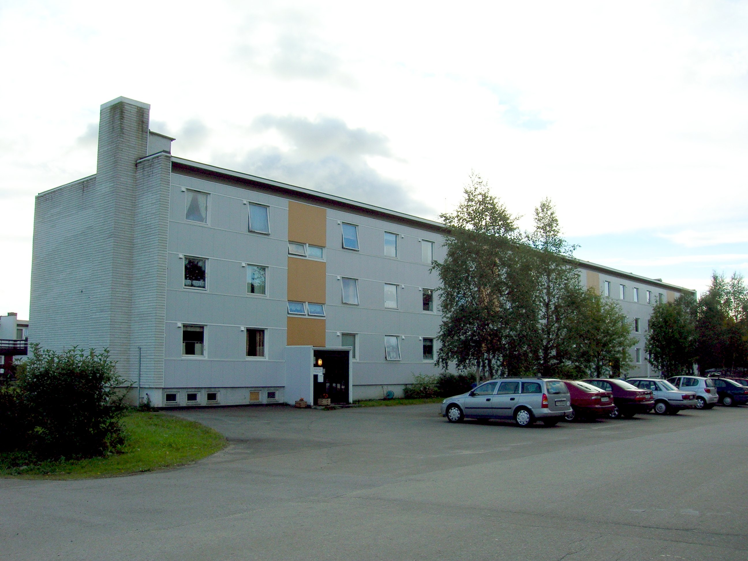 Elgveien housing cooperative on Selfors, north of Mo i Rana, Rana municipality, county of Nordland, Norway, Photo 4 September, 2007 with a Nikon Coolpix 5600 5,1 Megapixel camera.